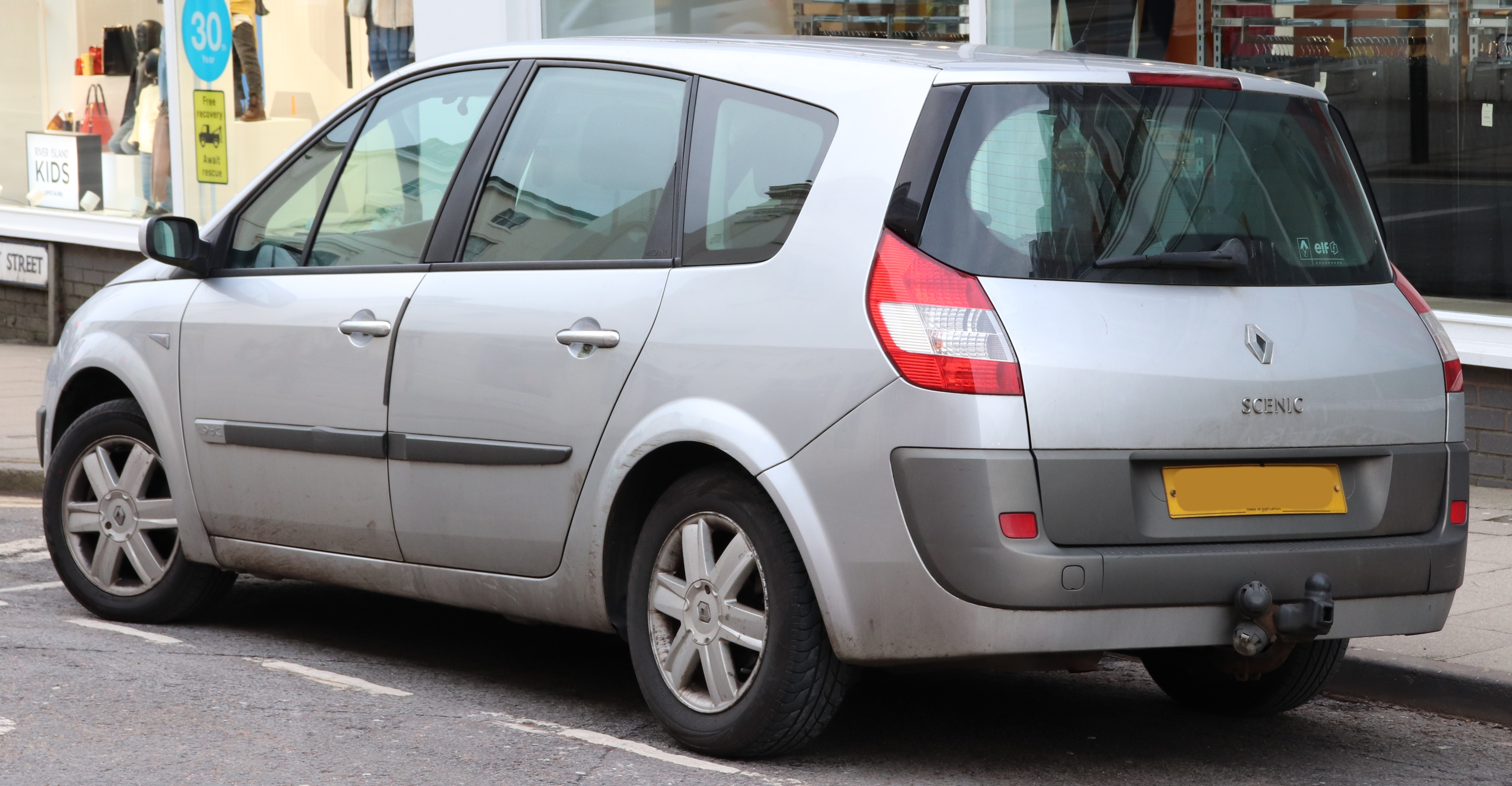 2006 Renault Grand Scenic D-QUE DCi 130 E4 1.9 Rear Taken in Leamington Spa